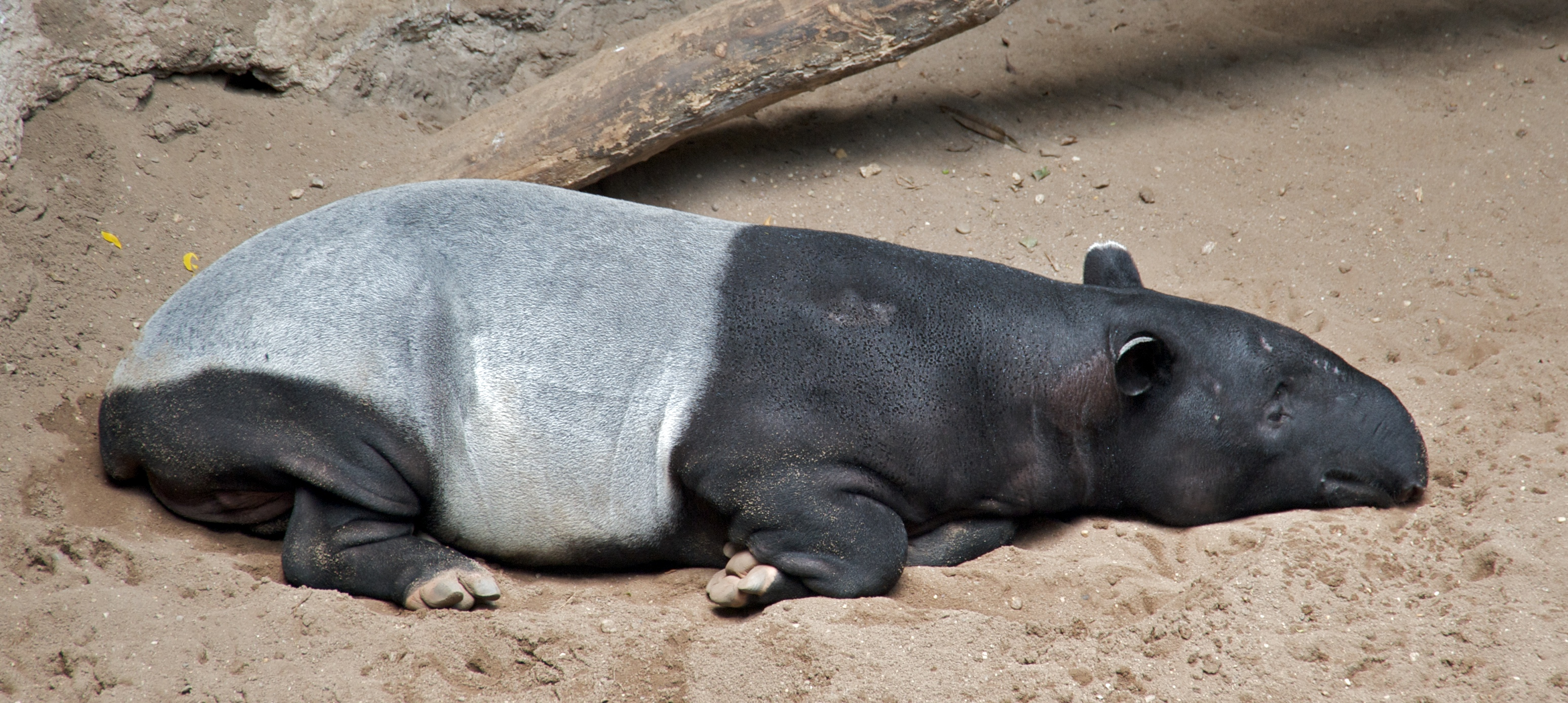 Malayan Tapir at the Bronx Zoo. This is a cropped version of File:Malayan Tapir Tapirus indicus at Bronx Zoo.jpg